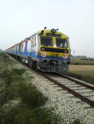 This Train Run Via kirakat